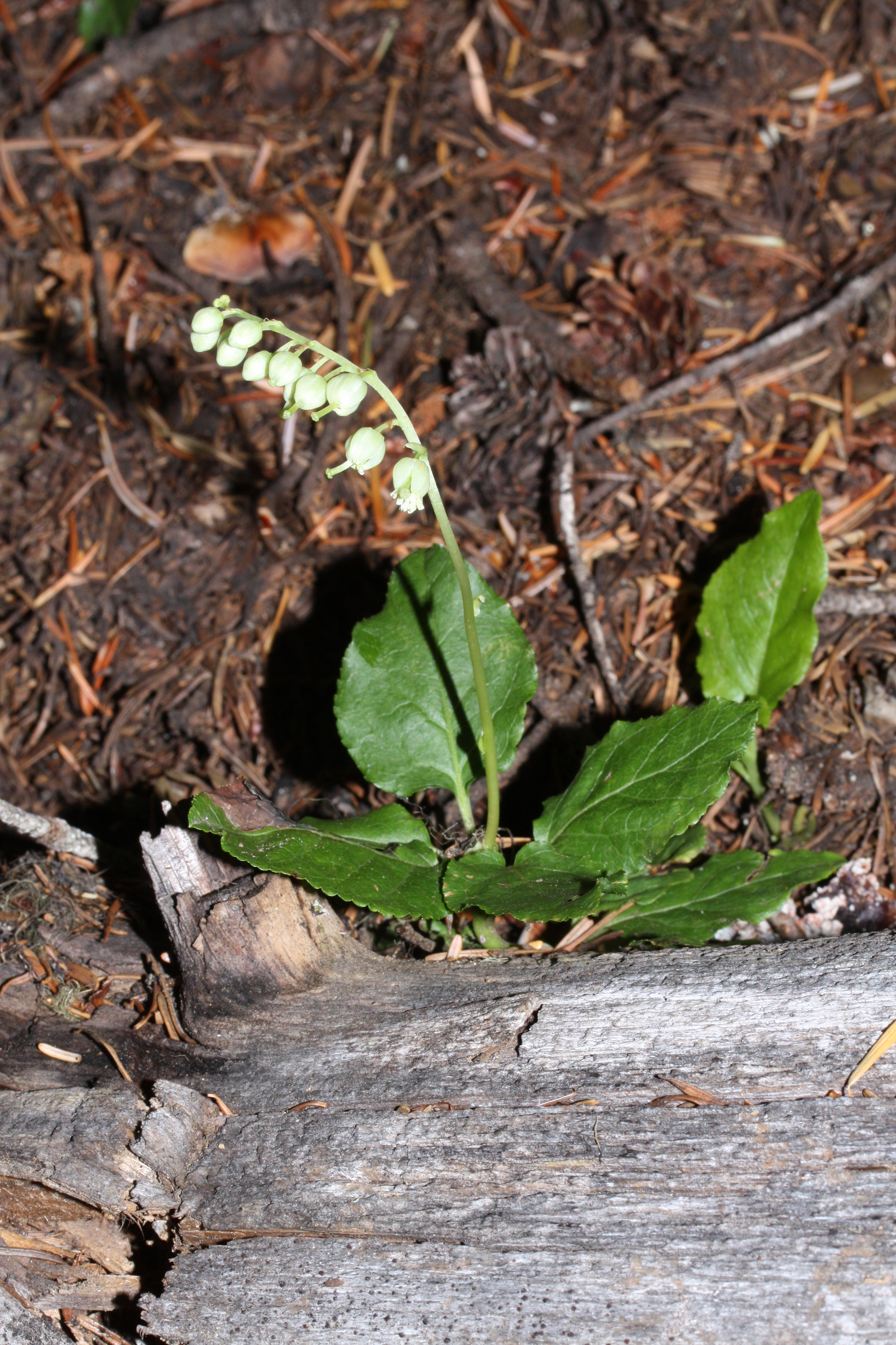 Sidebells Wintergreen, One-sided Pyrola, Sidebells